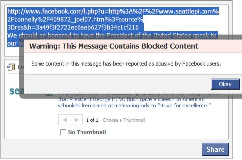 Personally-taken screenshot of attempt to post news article blocked by Facebook.